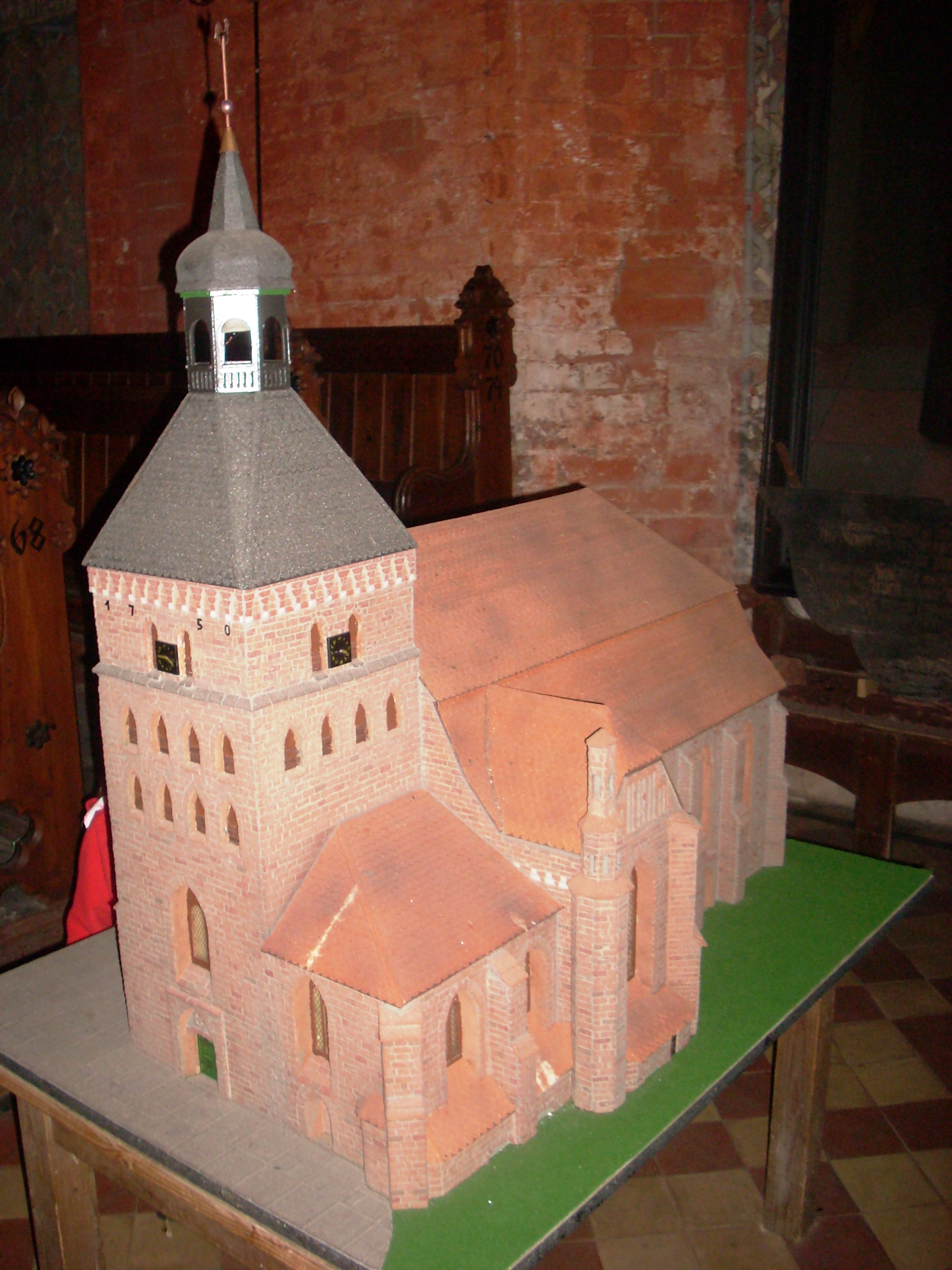 Modell from the church Sternberg in Mecklenburg